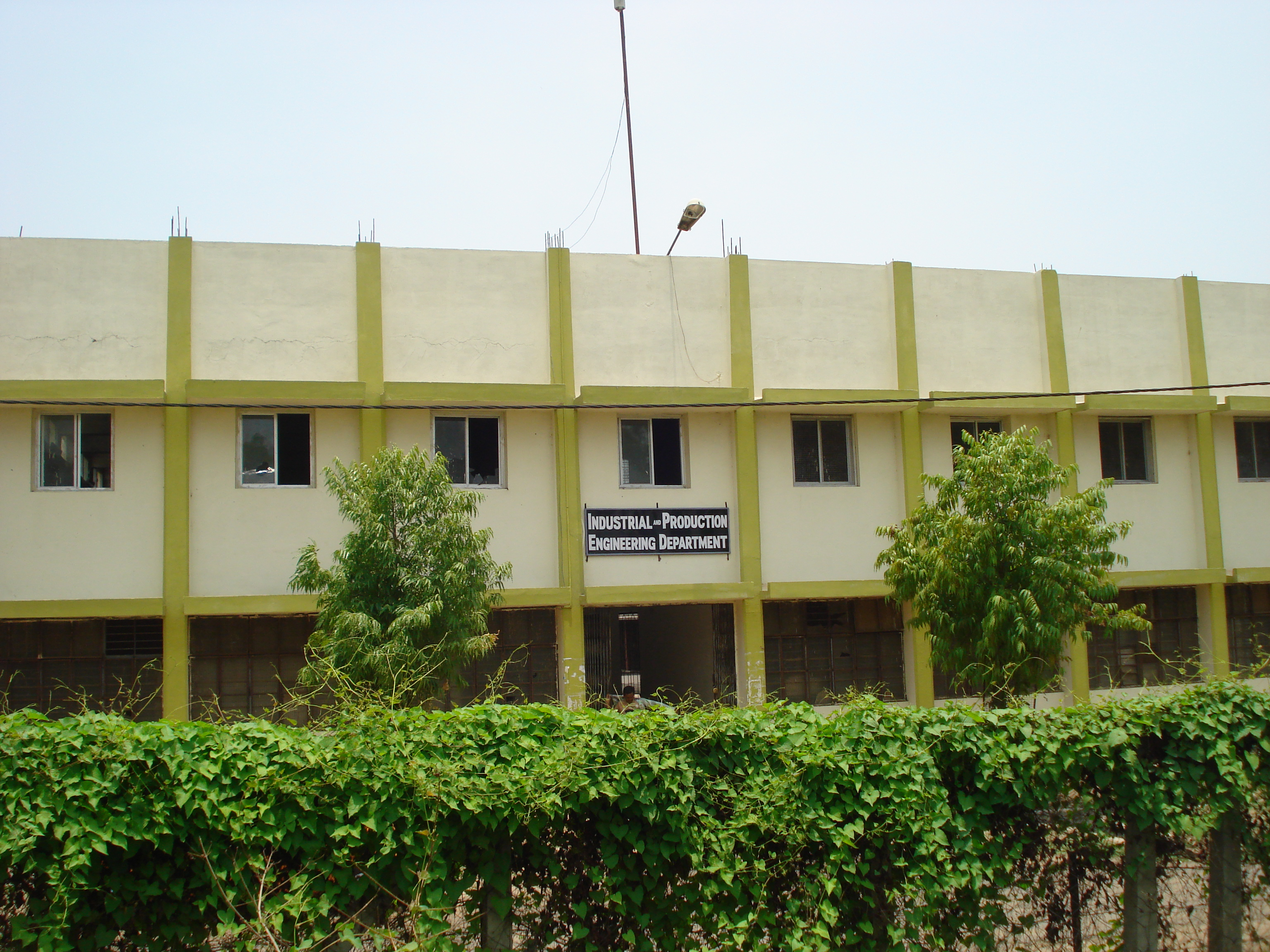 Jabalpur Engineering College (JEC)'s IP Department